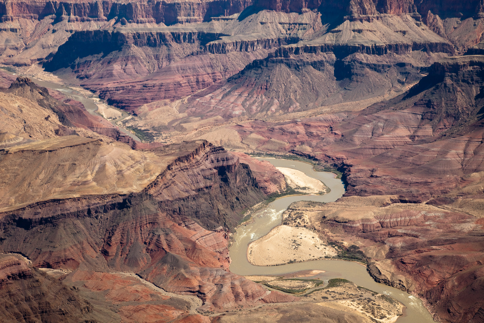 Grand Canyon day 2 view from helicopter